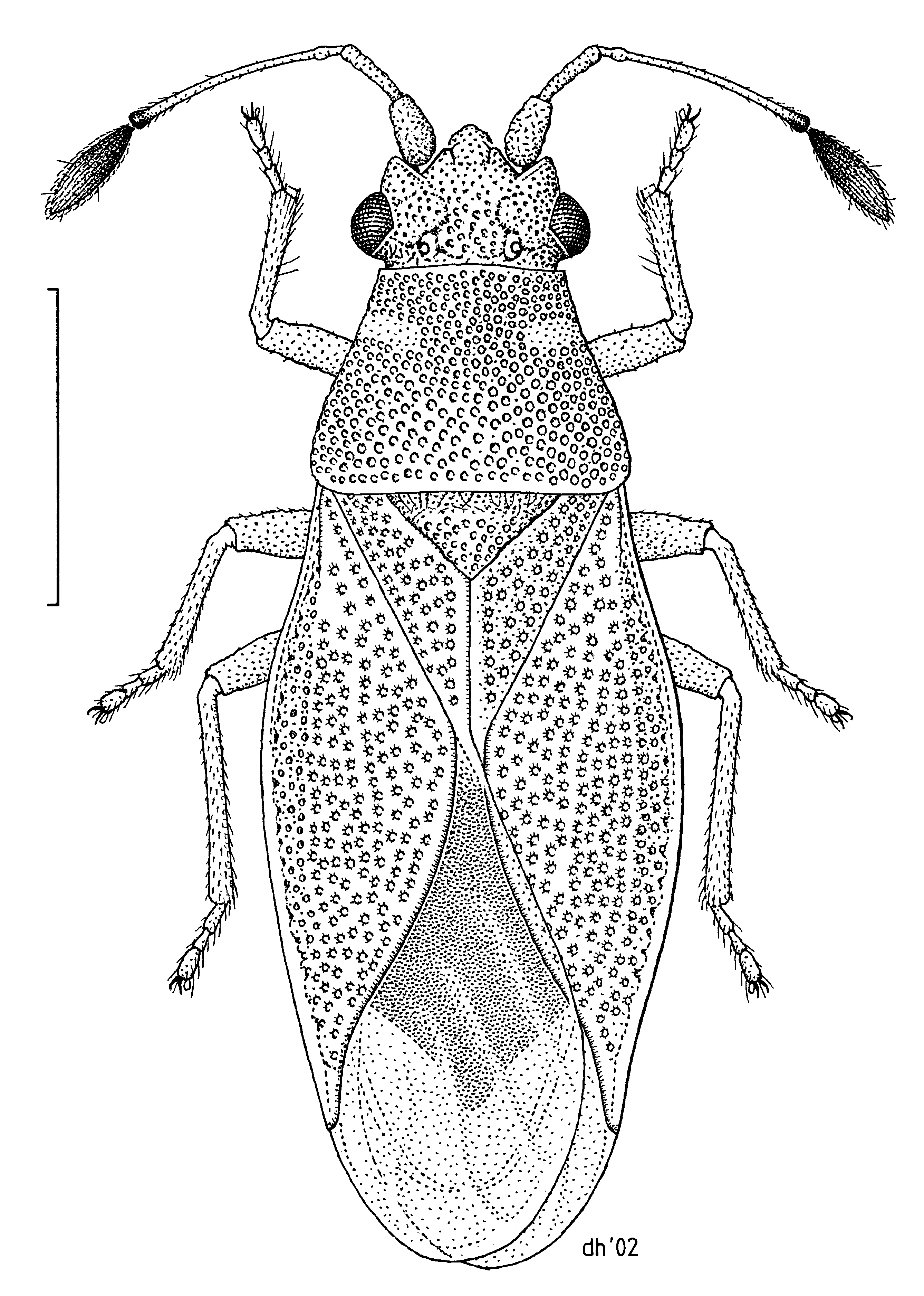 (Hemiptera: Cymidae) Cymus novaezelandiae illustrated by Des Helmore.